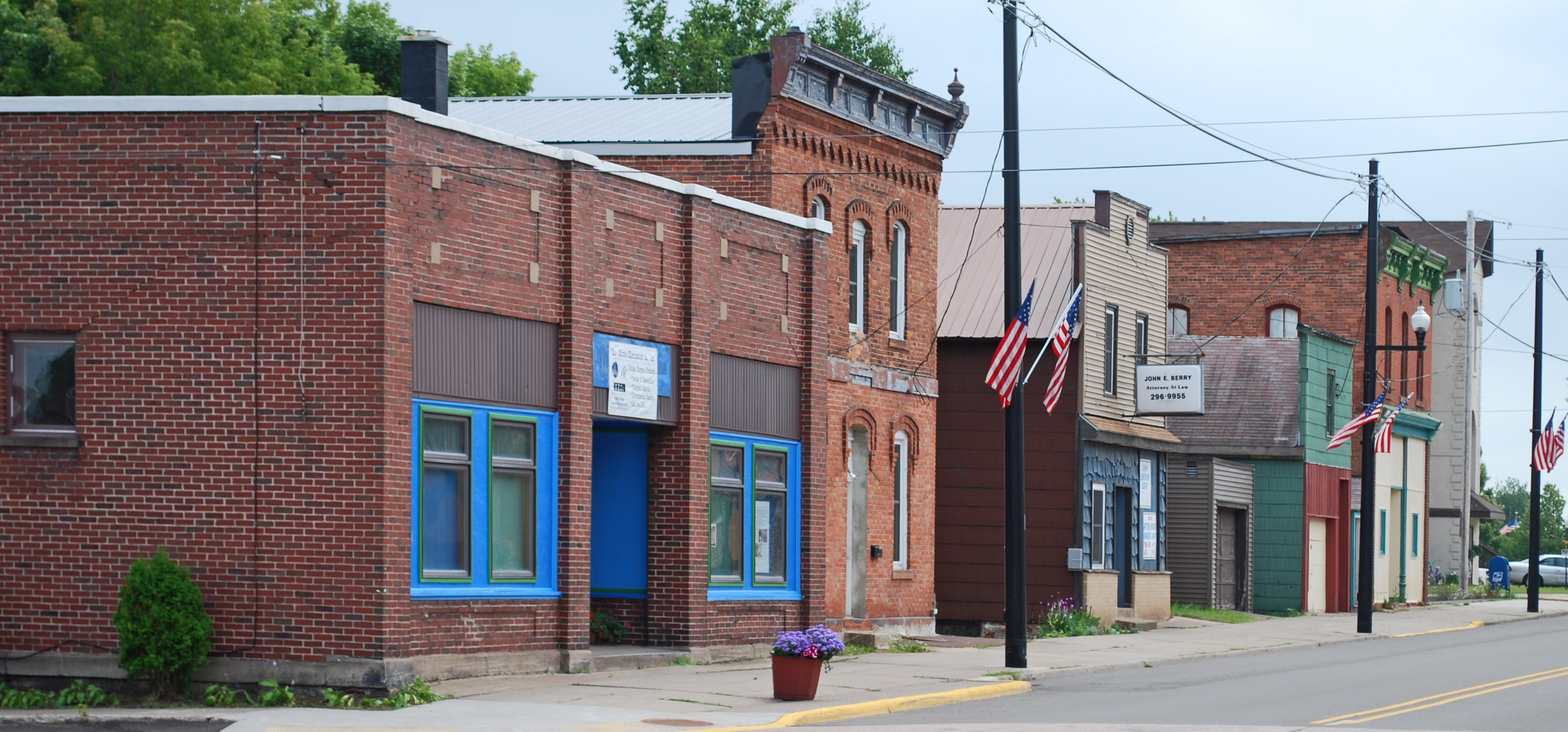 Lake Linden MI Historic District Streetscape